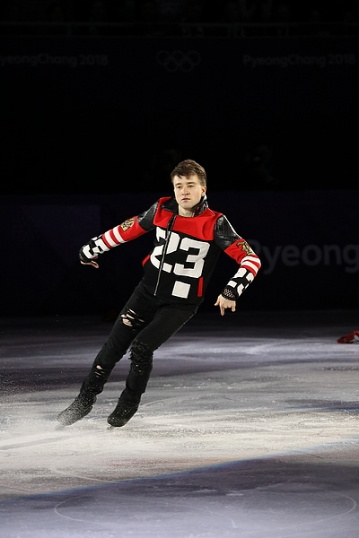 Gala exhibition at the 2018 Winter Olympics